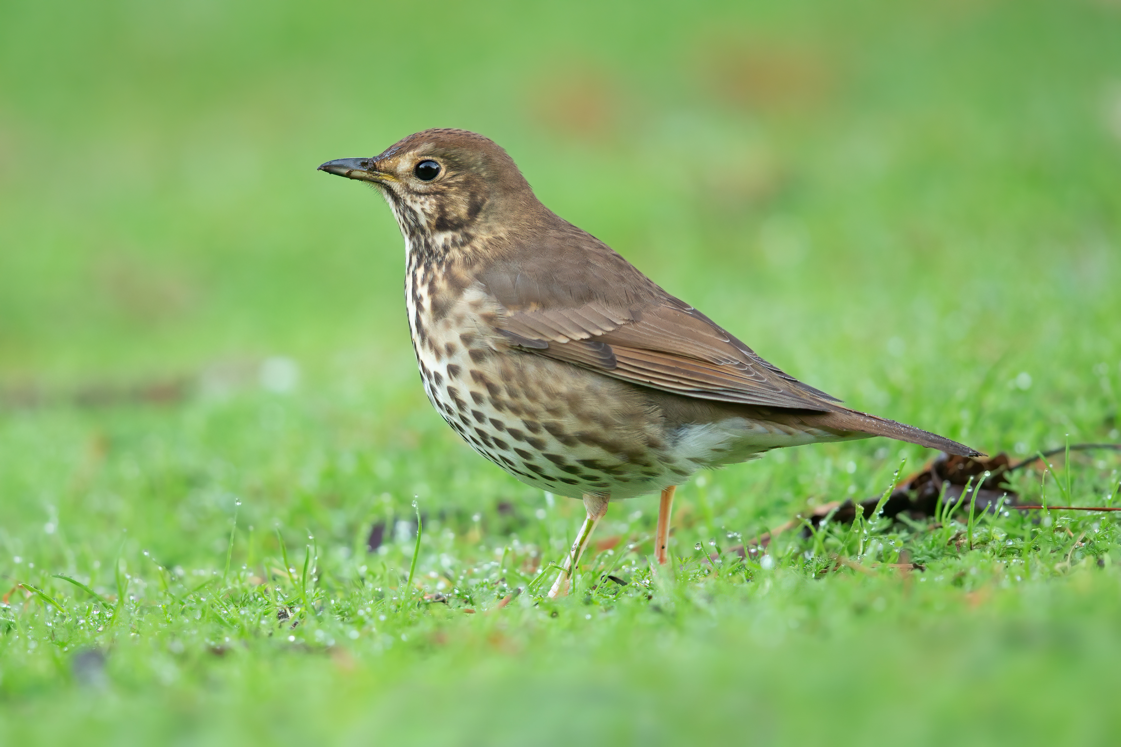 Song Thrush (Turdus philomelos), Western Springs Lakeside Park, Auckland, New Zealand